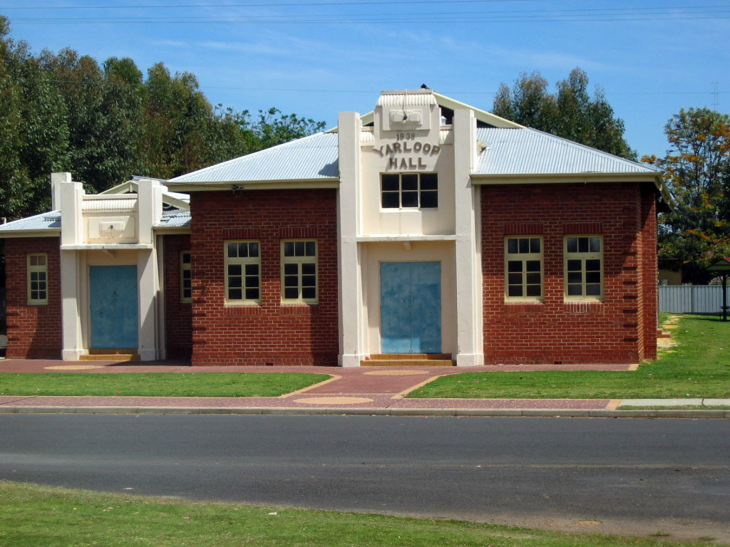 Hall at Yarloop, Western Australia. The hall was one of approximately 95 buildings destroyed in a large bushfire which hit the small town during 7-8 January 2016.